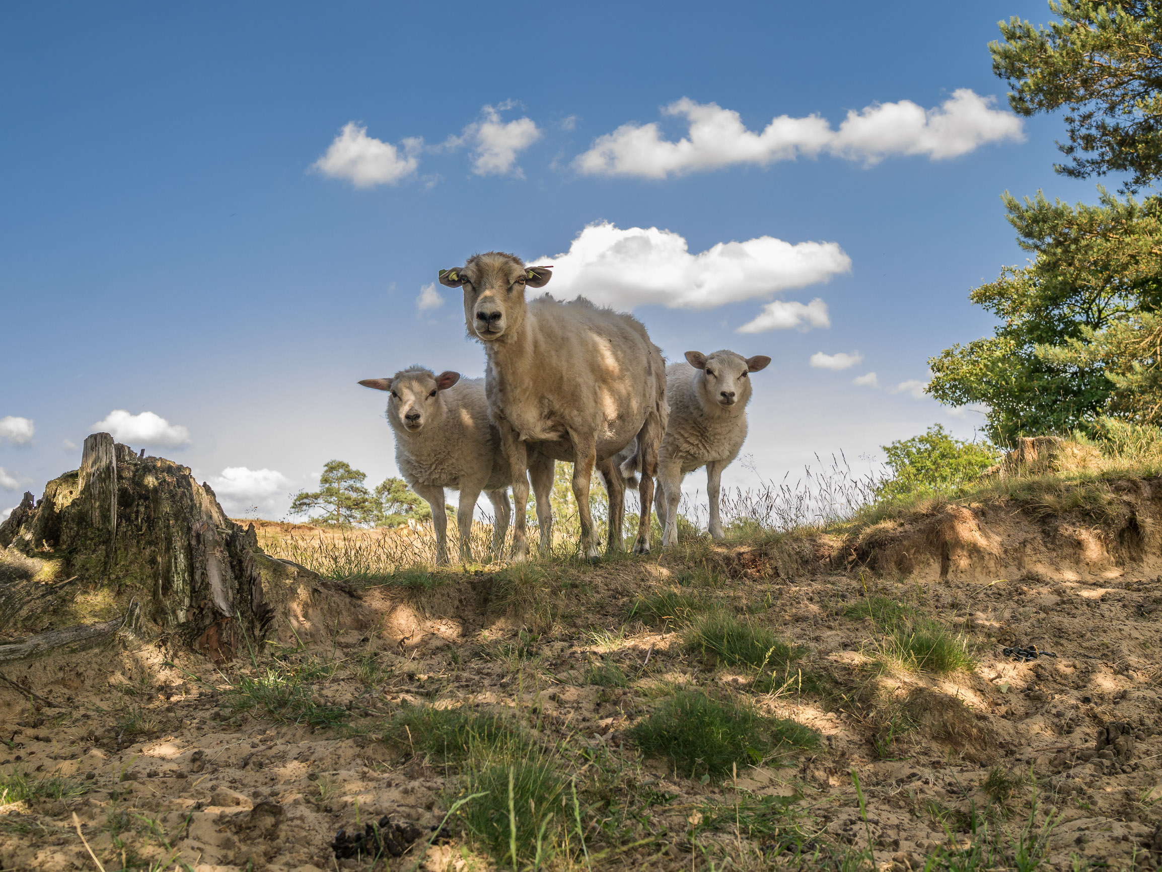 Sheep in Drents-Friese Wold National Park, Netherlands This is a photo or sound file made in Drents-Friese Wold National Park in the Netherlands, with the main subject of the file in the category: animals